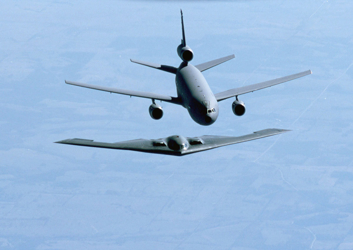 A KC-10A Extender from McGuire Air Force Base, N.J., prepares to refuel a B-2 Spirit bomber during a training exercise on March 23, 2001. Although the KC-10's primary mission is aerial refueling, it can combine the tasks of tanker and cargo aircraft by refueling fighters while carrying the fighters' support people and equipment during overseas deployments.